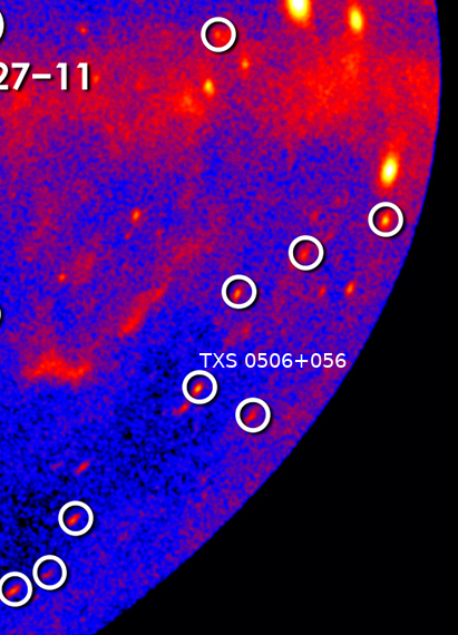 Cropped Fermi Blazar map from Fermi's Five-year View of the Gamma-ray Sky and annotated location of TXS0506+056